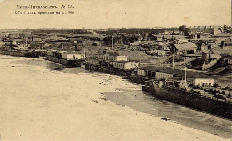 The quay of Novonikolayevsk (current Novosibirsk). Tsarist period.